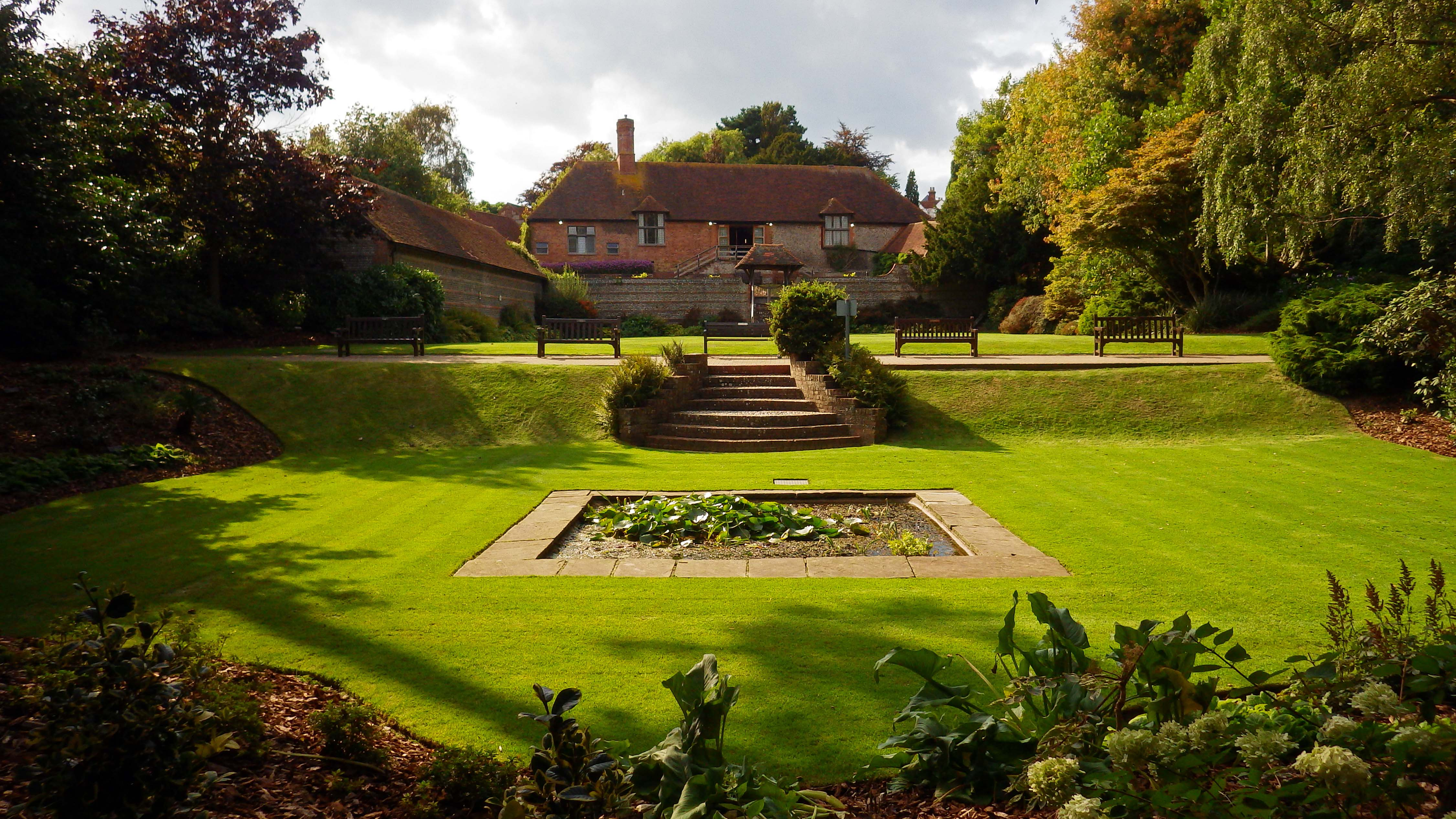 Looking west towards Manor Barn.